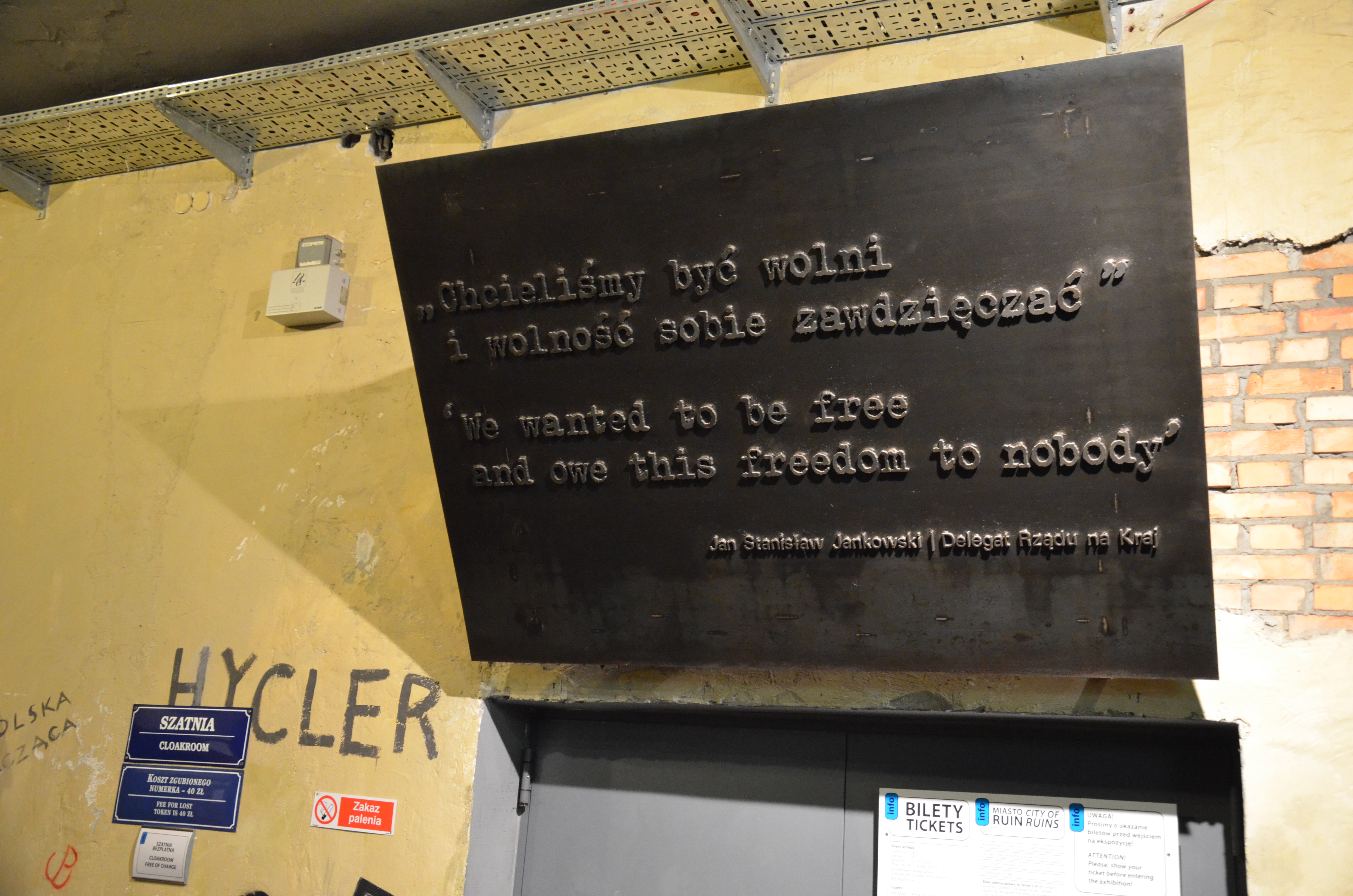 Warsaw Uprising Museum